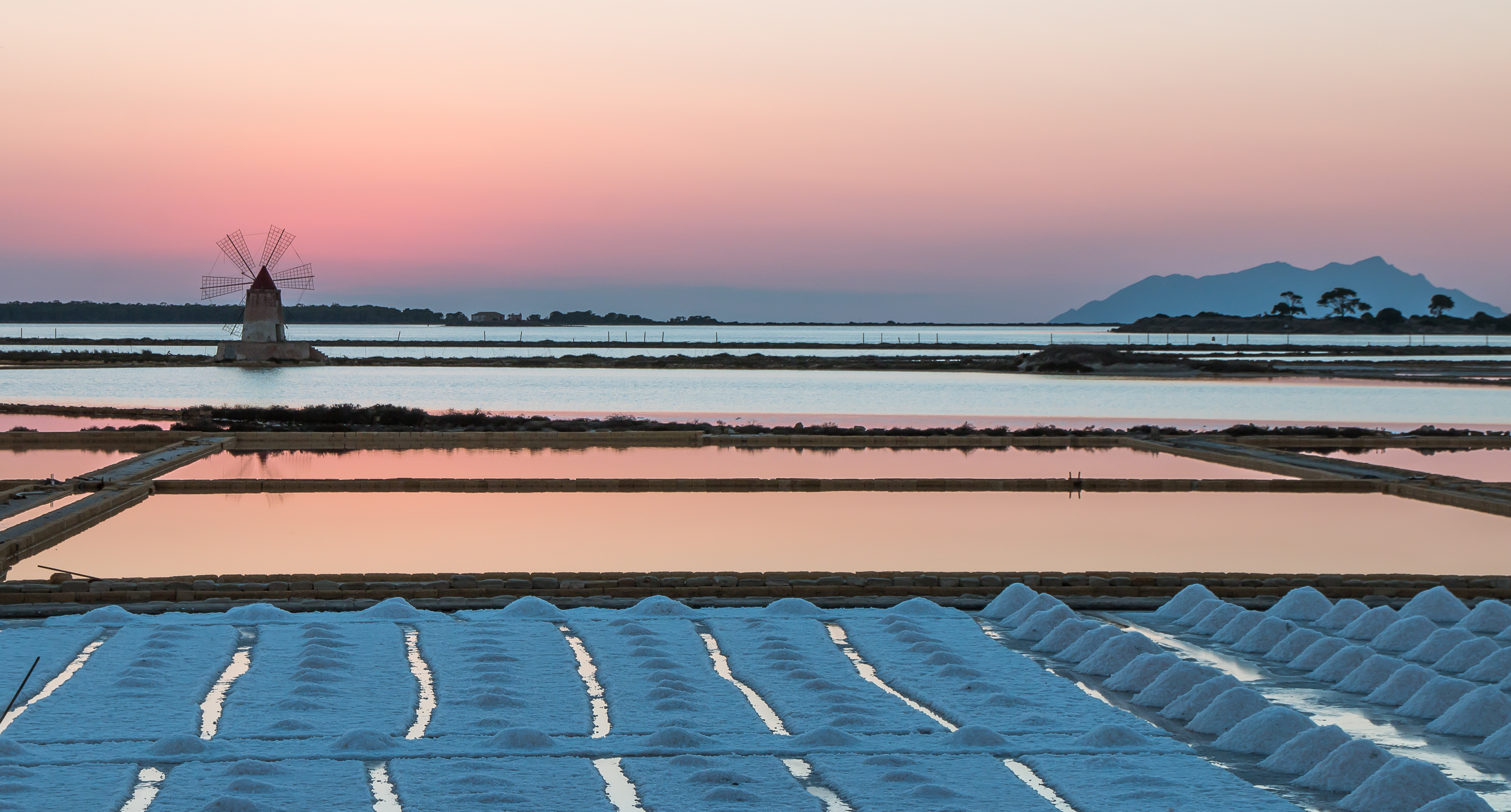 Evening sunset over Mozia, Sicily